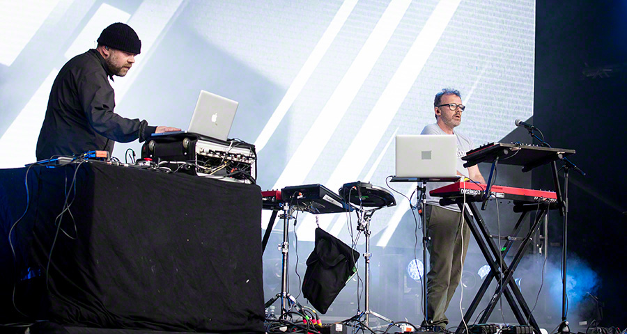 Leftfield performs at Quart Festival in Kristiansand on 29. June 2016. Lineup:Neil Barnes (keyboard)Adam Wren Nick Rice (drums)